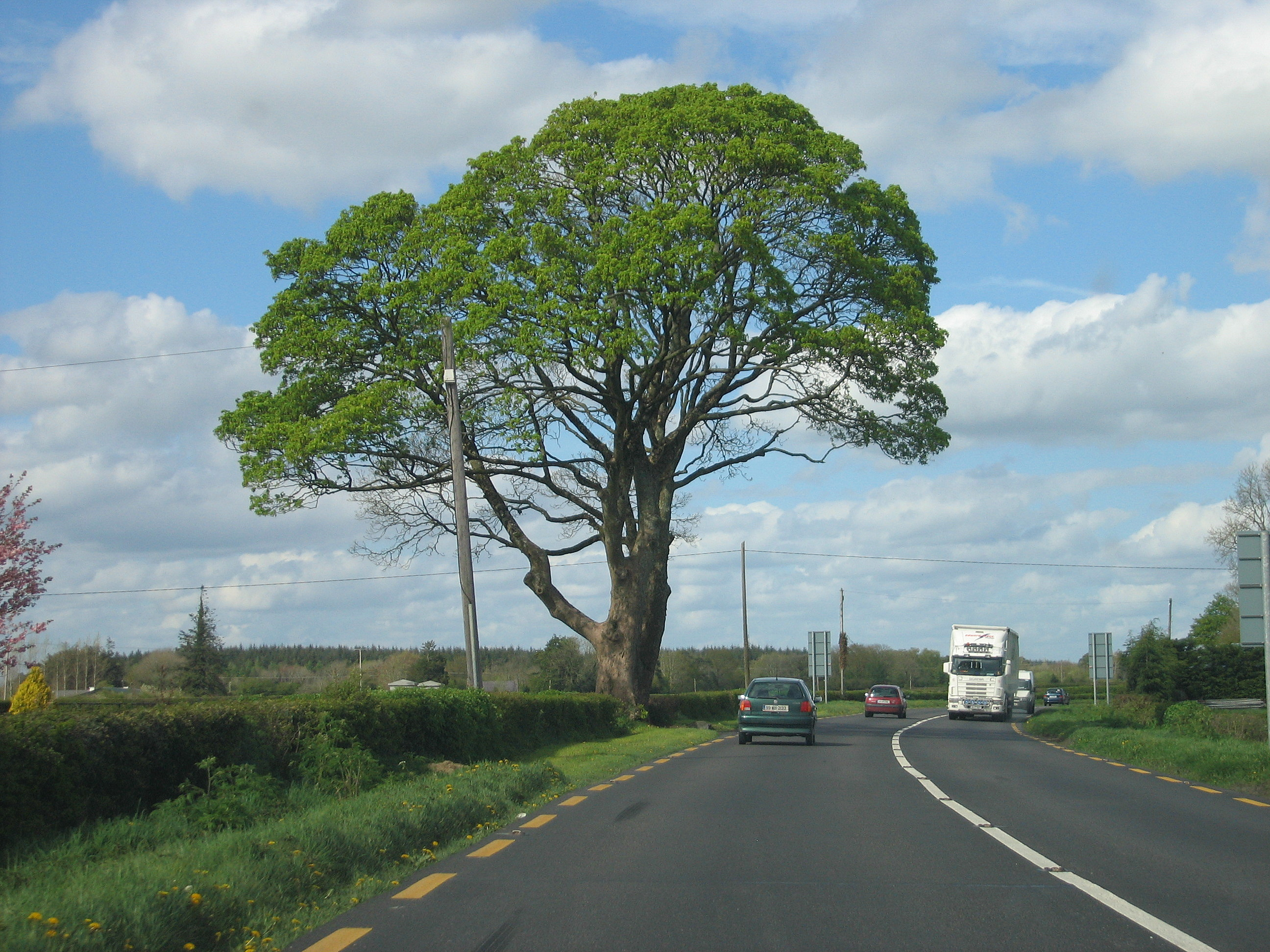 Sycamore on the N8, near to Raheen, Ballyruin and Corbally, County Laois, Ireland. Still the main Dublin–Cork road between Portlaoise and Abbeyleix. Soon to be bypassed by the M8.